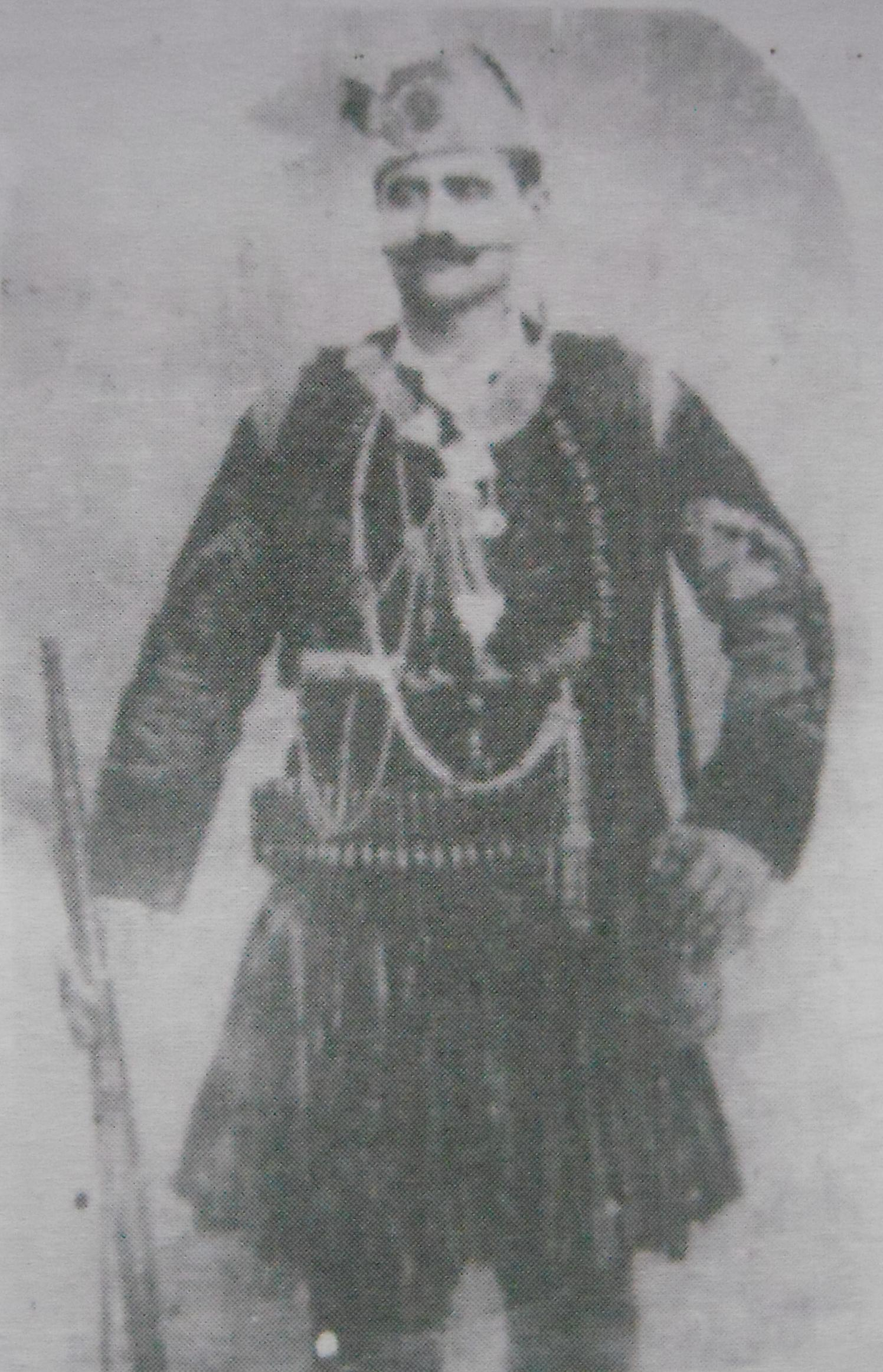 Portrait of IMARO member kapitan Krasto Naumov from Prilep